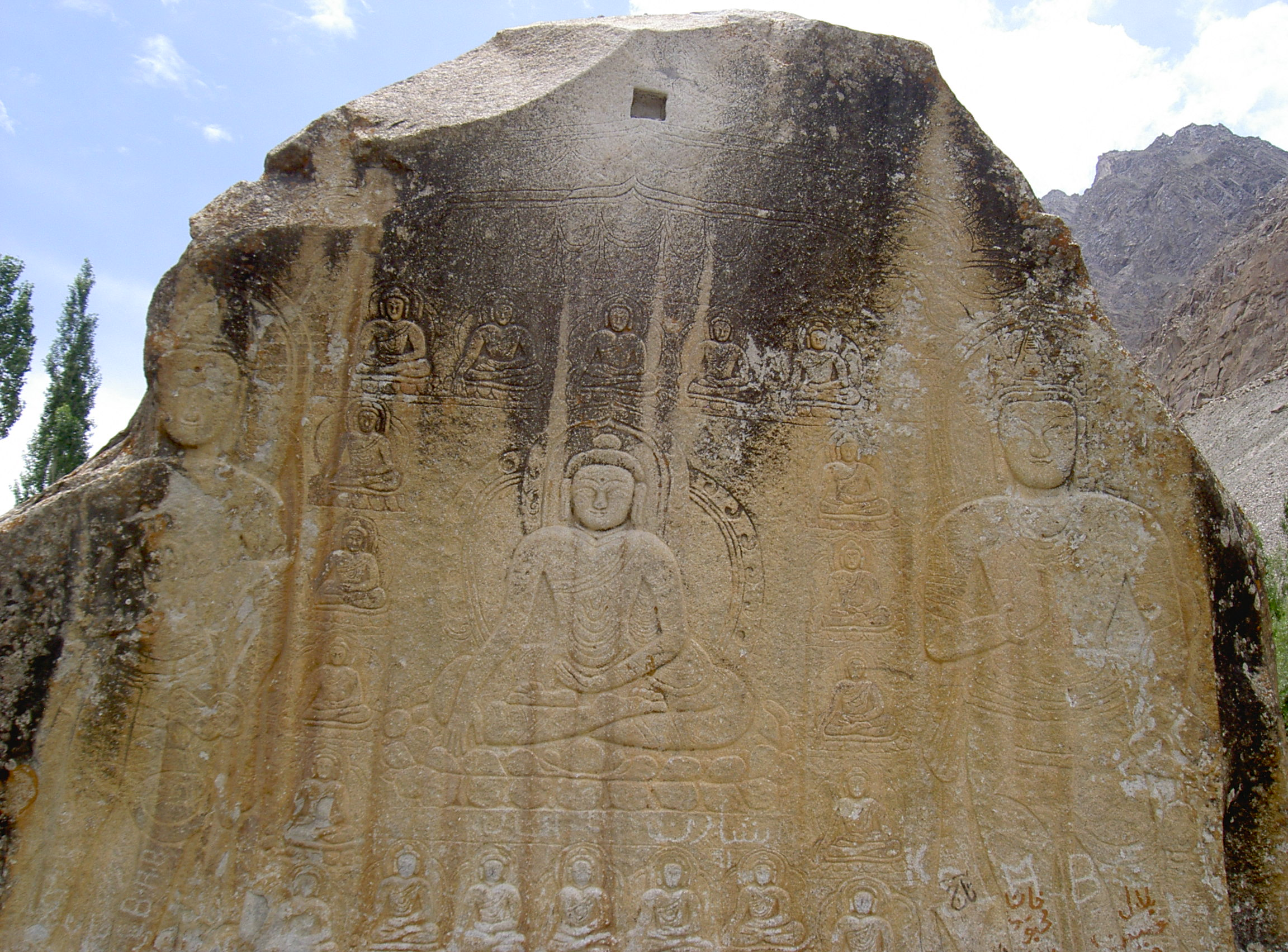 Manthal Rock (Buddhist inscriptions) This is a photo of a monument in Pakistan identified as the GB-23